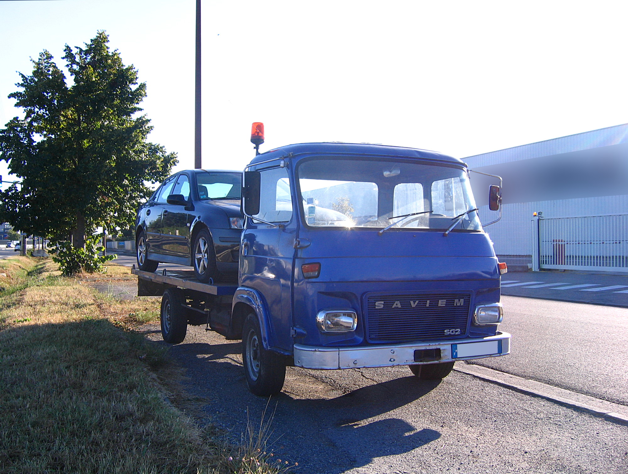 1967-79 Saviem SG2 still "at work" in Septembre 2014.